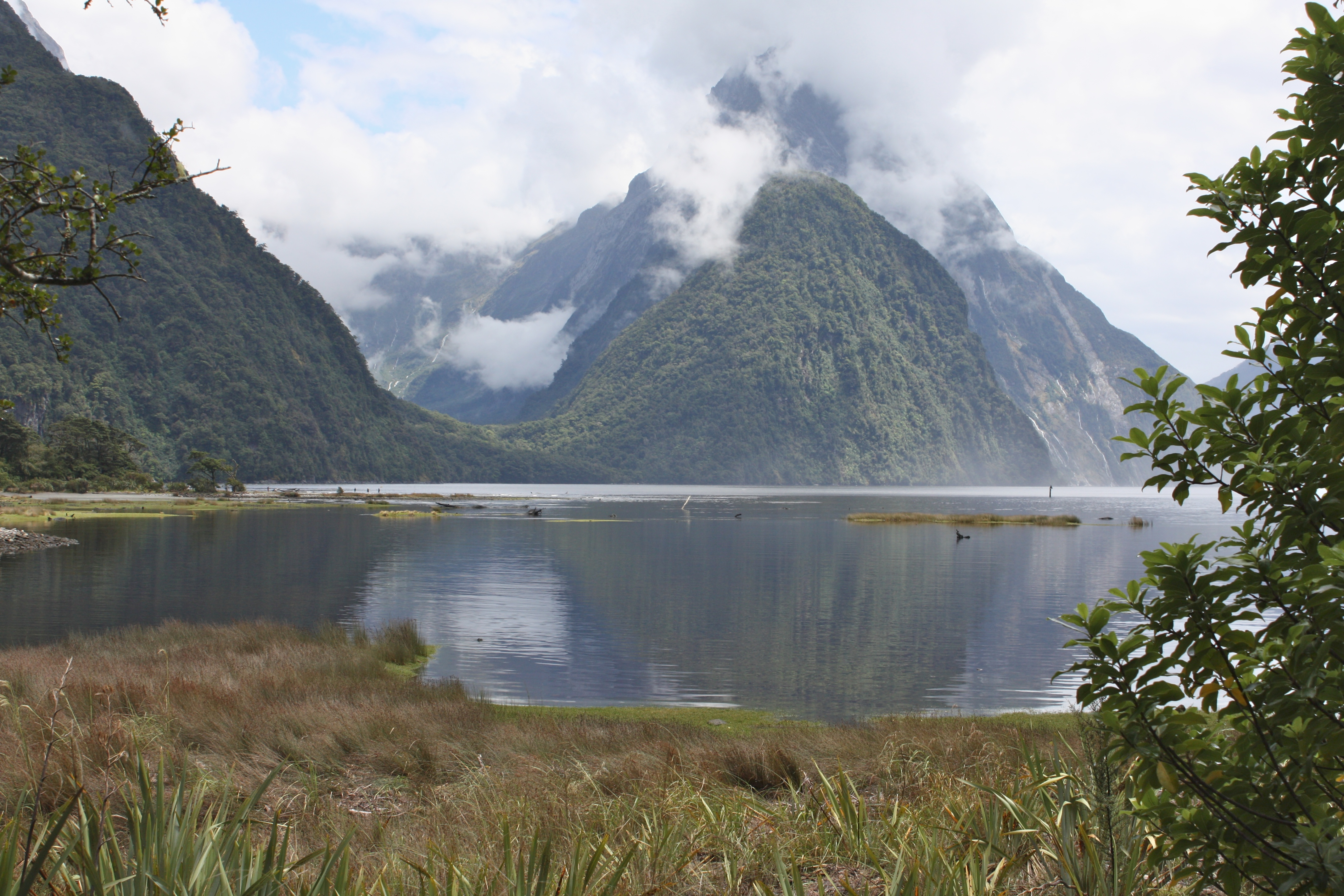 Milford Sound with Sinbad Gully between mountains on the far side of the shore of a fjord.